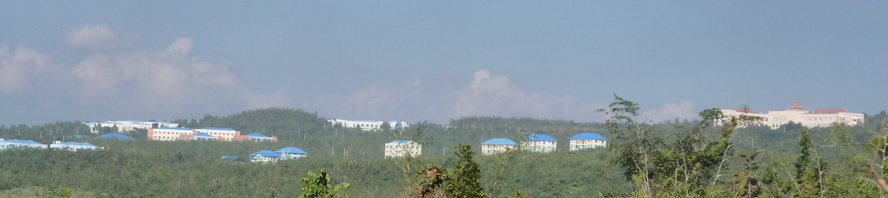 Panorama of Yadanabon Cyber City